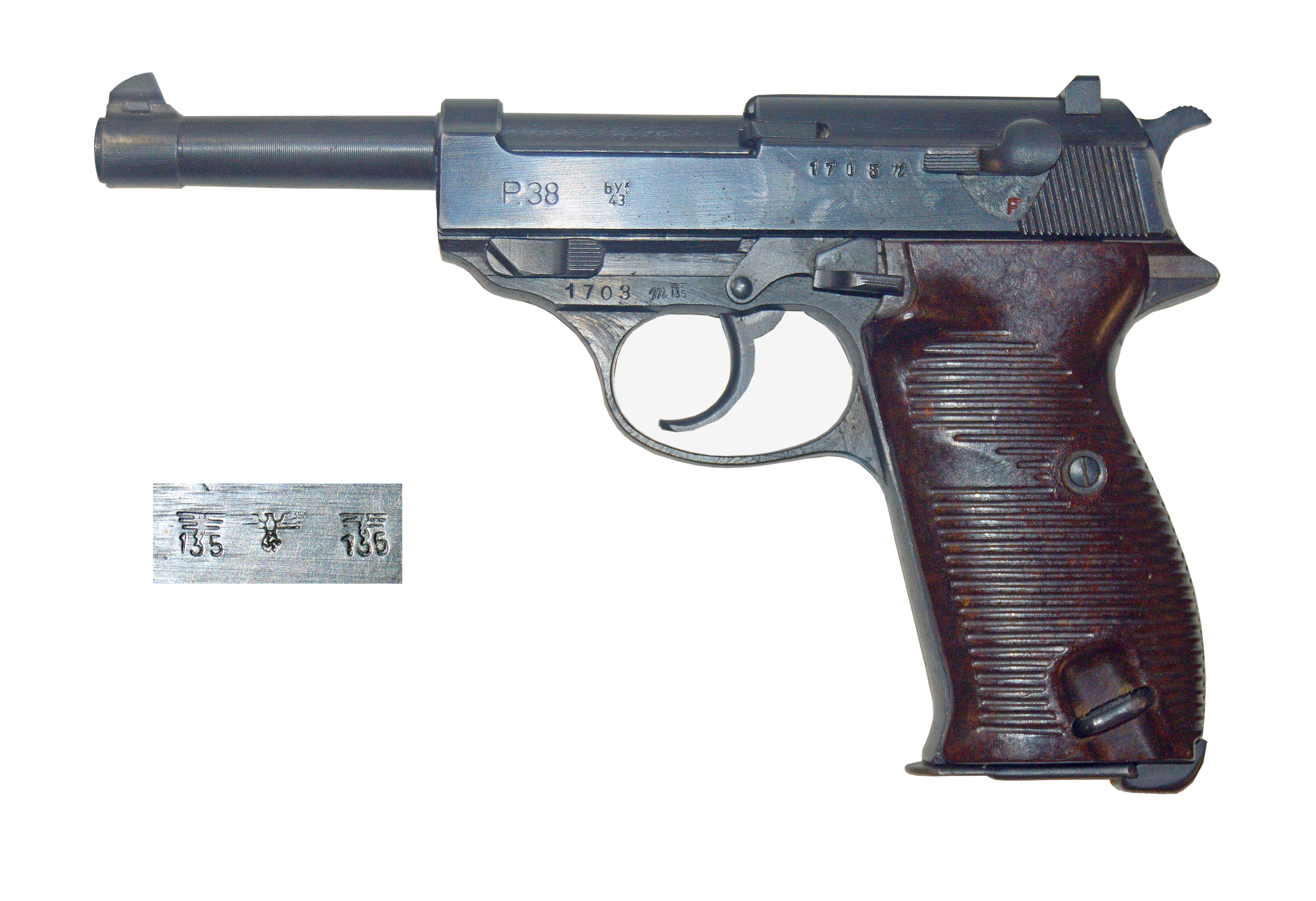 Walther P38 9×19mm Parabellum WWII German Wehrmacht pistol manufactured by Mauser AG (founded as Königlich Württembergische Gewehrfabrik) in Oberndorf am Neckar, Württemberg, Germany in 1943 (see stamped byf 43 factory code) (Inset: Waffenamt eagle and 135 inspection marks)